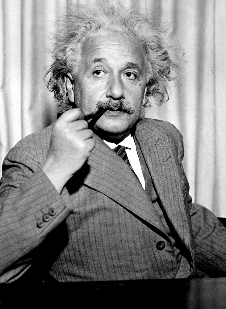 Photo of Albert Einstein in Princeton, NJ, soon after he fled Germany.